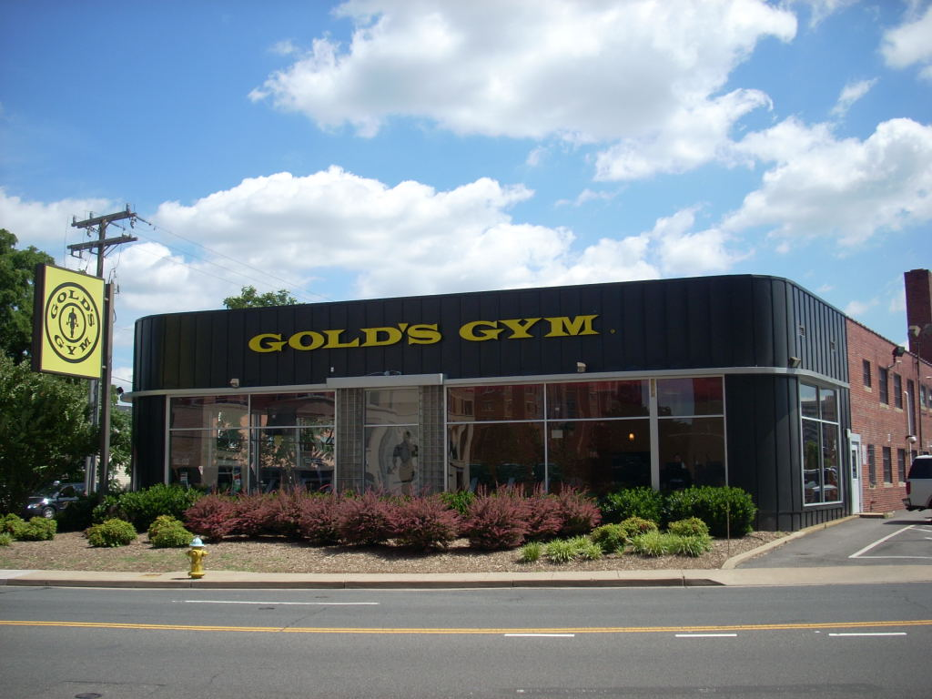 Gold's Gym, 3910 Wilson Blvd (Arlington, Virginia) Formerly Al's Motors NRHP